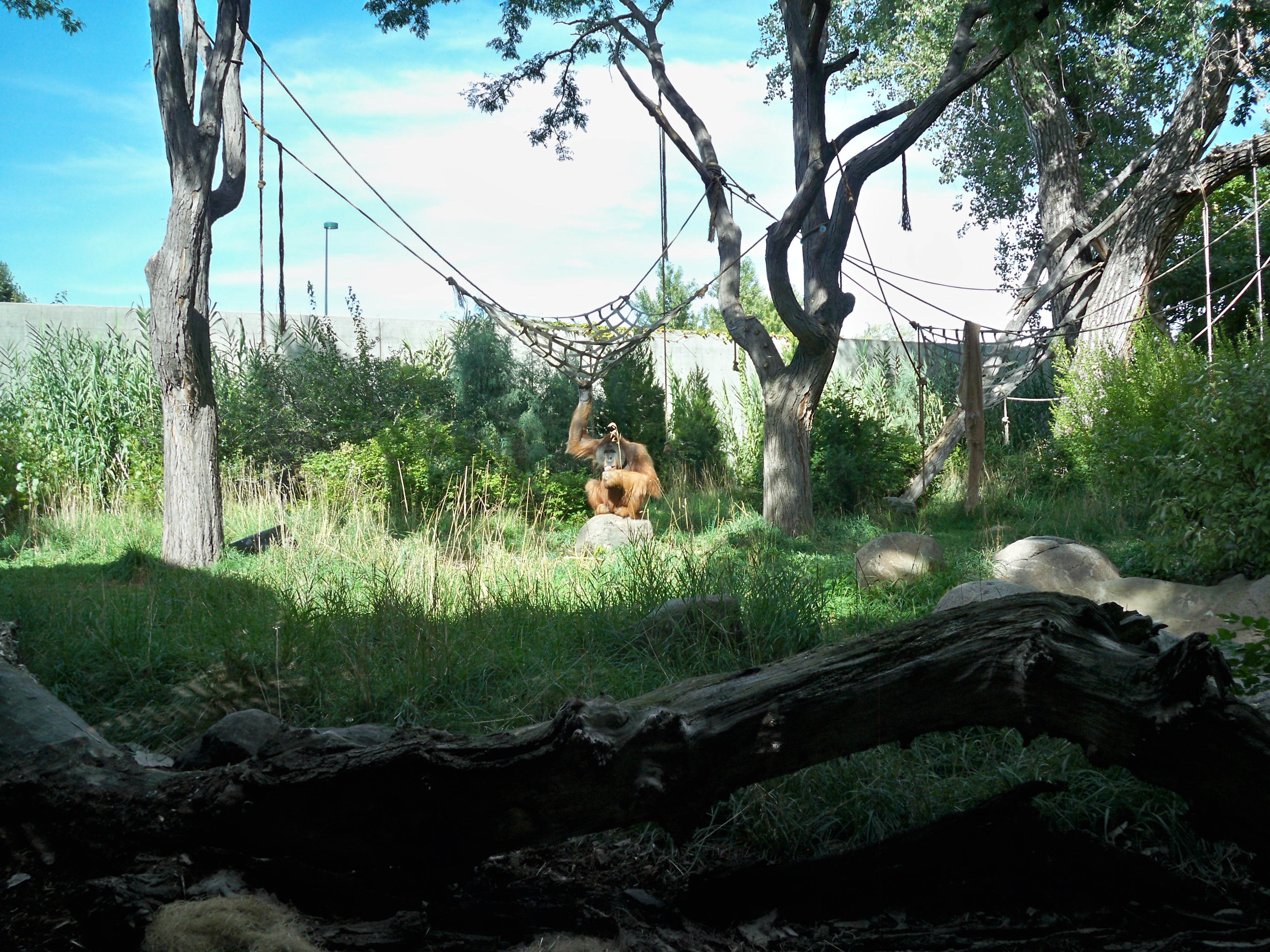 Orangutans at the Denver Zoo Primate Panorama have lots of space.